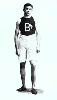 David Hall. USA, bronze medal winner at the 1900 Olympic Games, 800 meters. Photography, reproduction, no restrictions on use